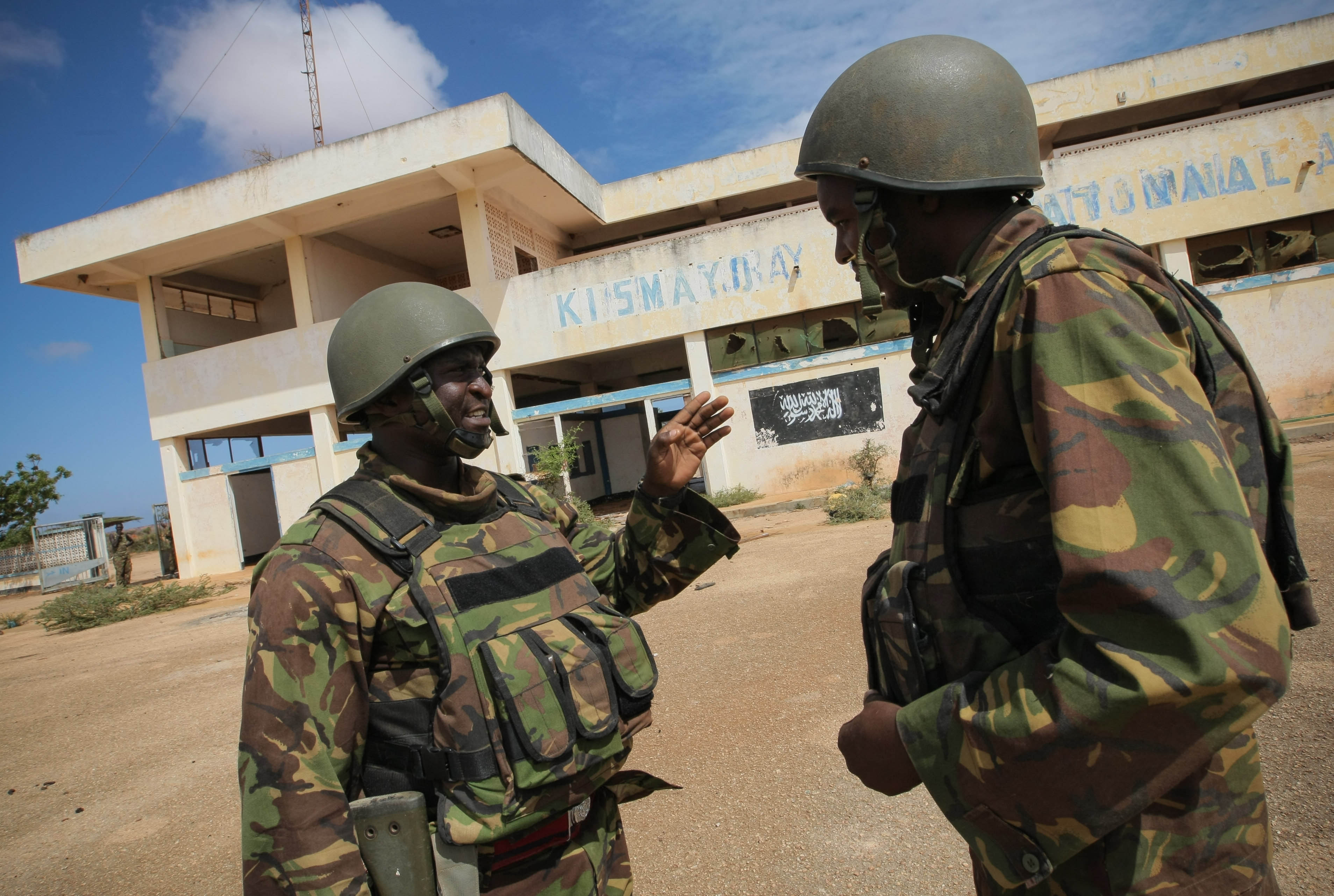 Soldiers of the Kenyan Contingent serving with the African Union Mission in Somalia (AMISOM) stand in front of the black flag of the Al Qaeda-affiliated extremist group Al Shabaab painted on the wall of Kismayo Airport. On 02 October 2012, Kenyan AMISOM troops supporting forces of the Somali National Army and the pro-government Ras Kimboni Brigade moved into and through Kismayo, the hitherto last major urban stronghold of the Al-Qaeda-affiliated extremist group Al Shabaab, on their way to the city's airport without a shot being fired following a month long operation to liberate towns and villages across southern Somalia from Afmadow and Kismayo itself. AU-UN IST PHOTO / STUART PRICE.